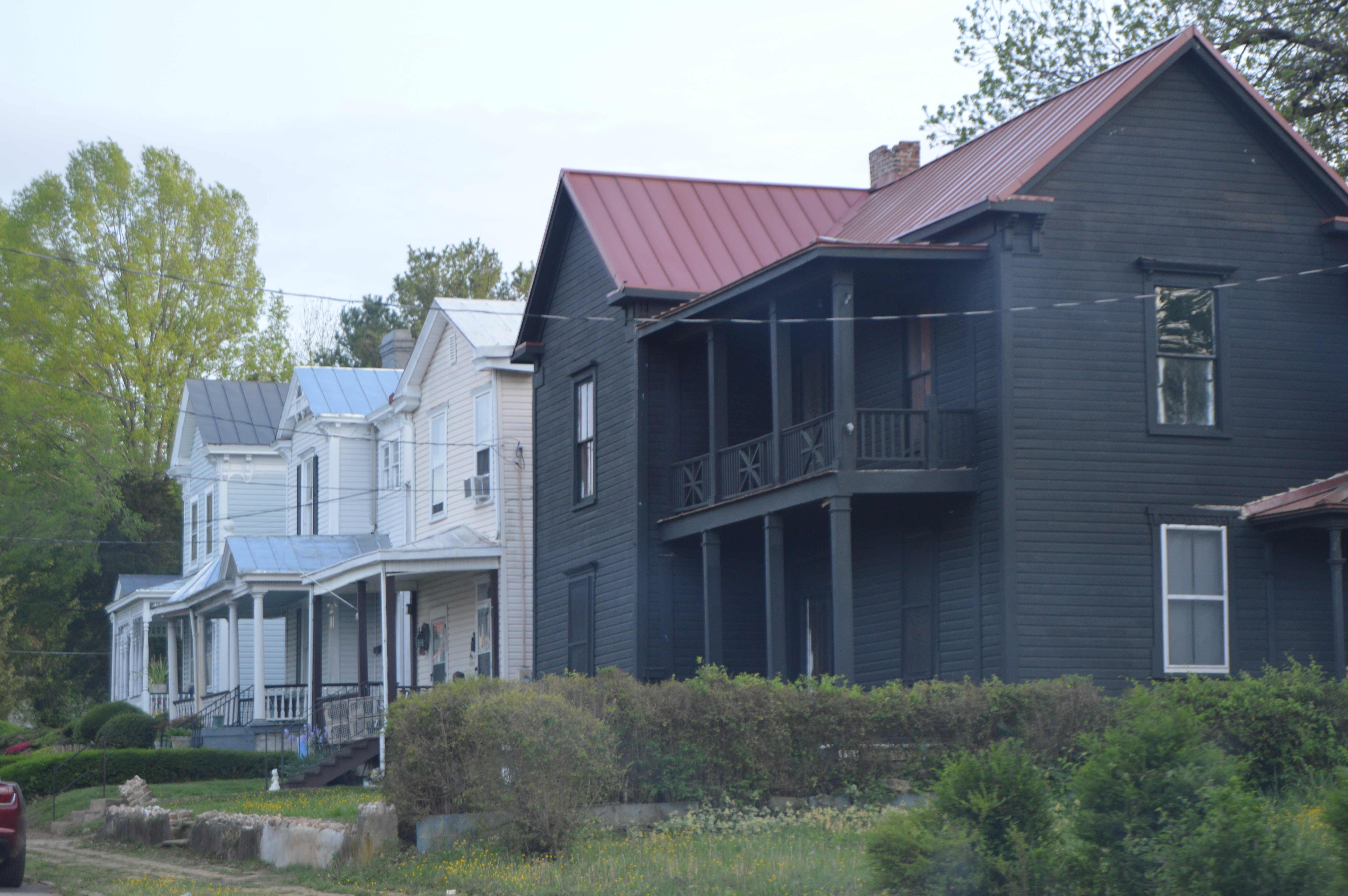 Houses on the eastern side of Holbrook Street just north of the Maury Street intersection in Danville, Virginia, United States. This block is part of the Holbrook-Ross Street Historic District, a historic district that is listed on the National Register of Historic Places.